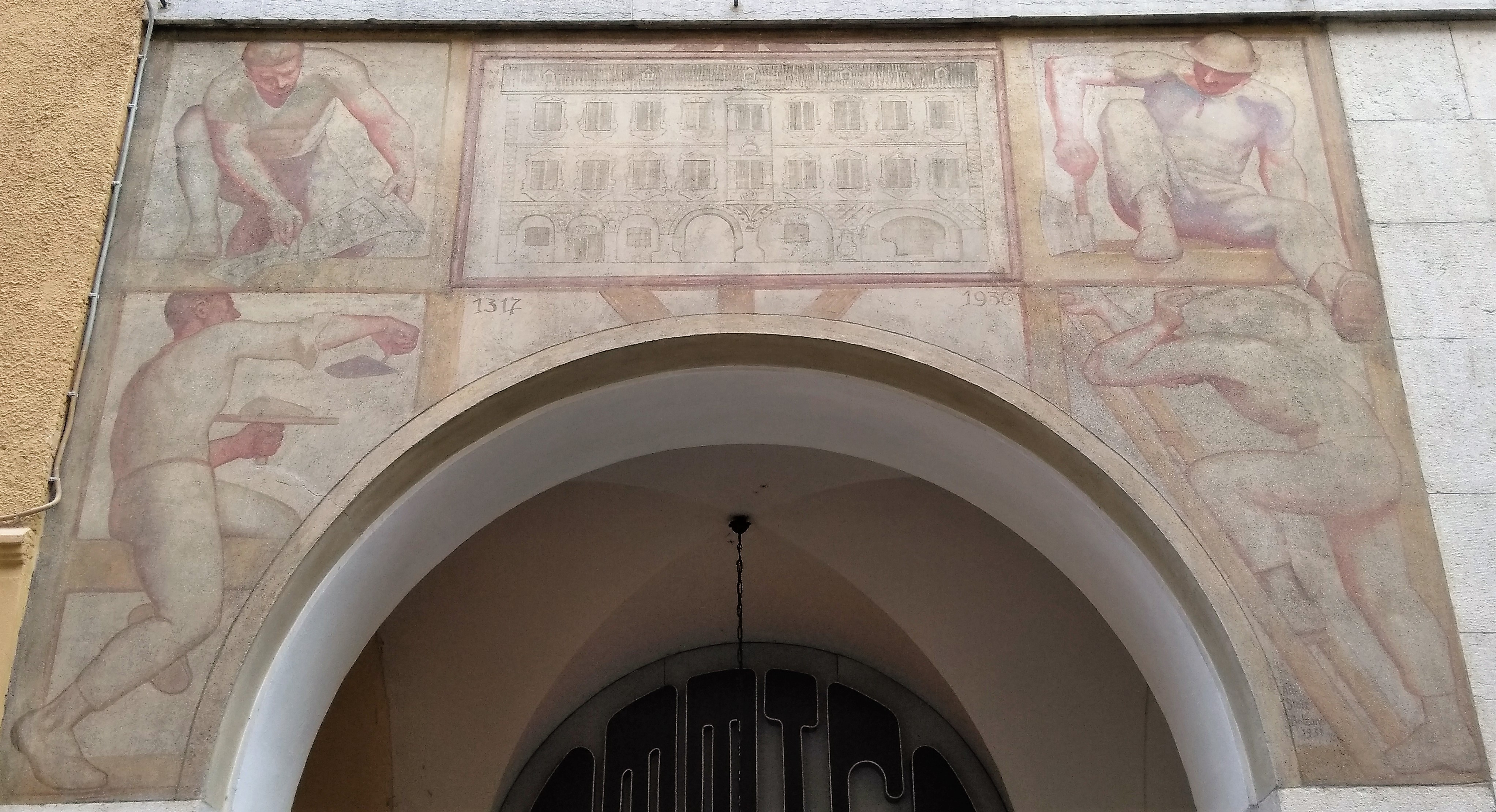 Facade fresco of Albert Stolz on Meran-Merano's Town Hall from 1930-31